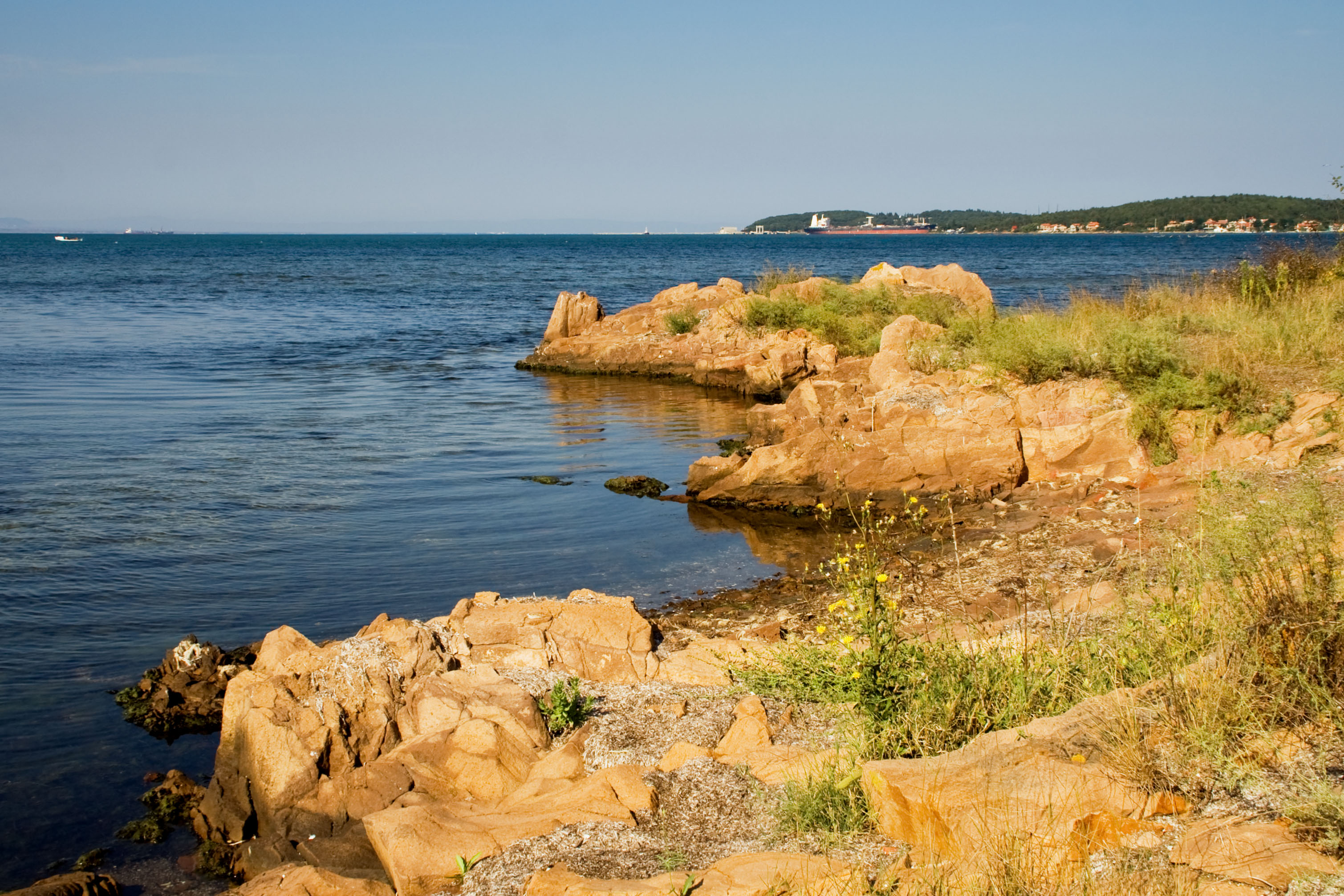 Chengene Skele protected area